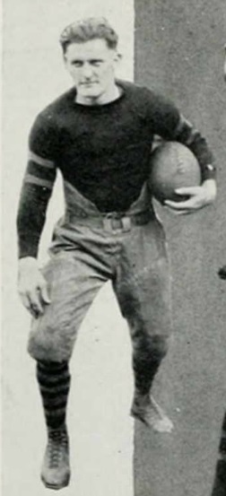 Rupert Smith, halfback for the Vanderbilt Commodores in the 20s circa 1921.